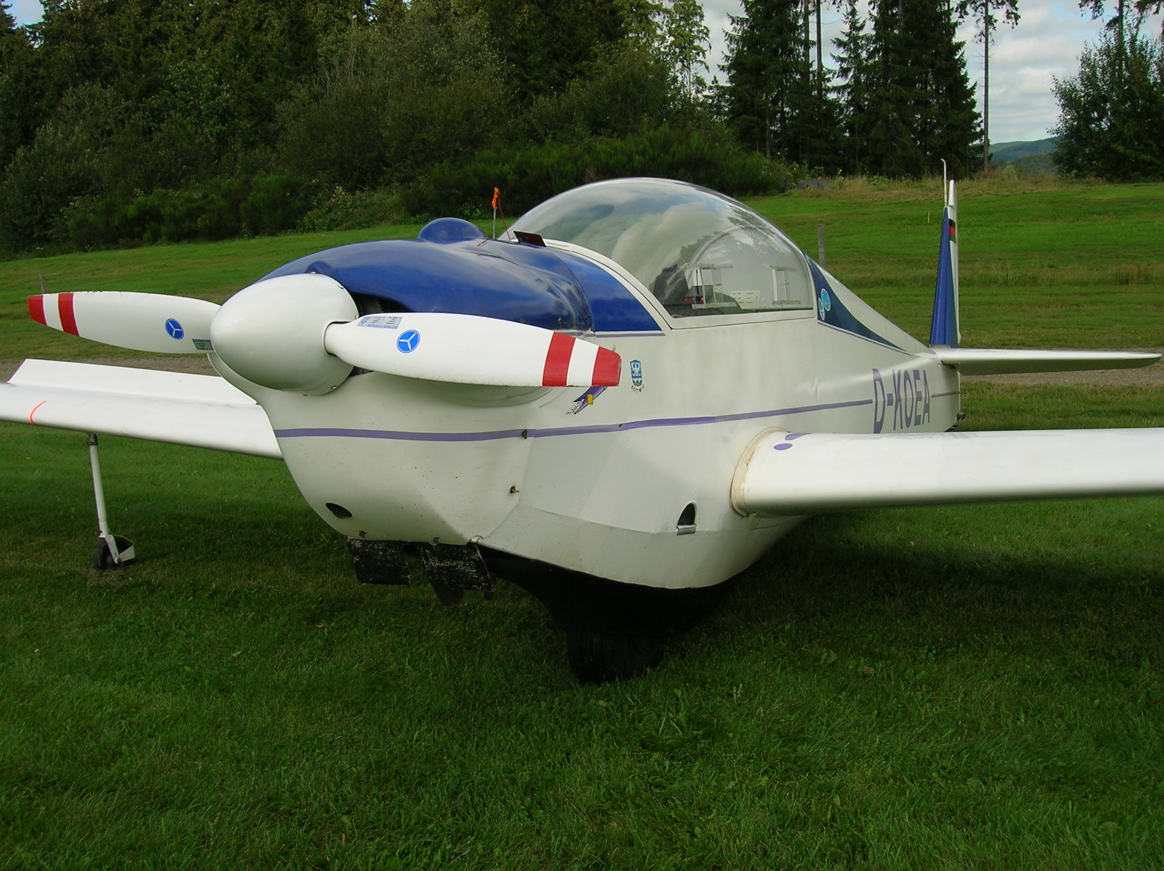 A Scheibe SF 28 Tandem Falke during the „Bergfliegen 2011“ at Schmallenberg airfield